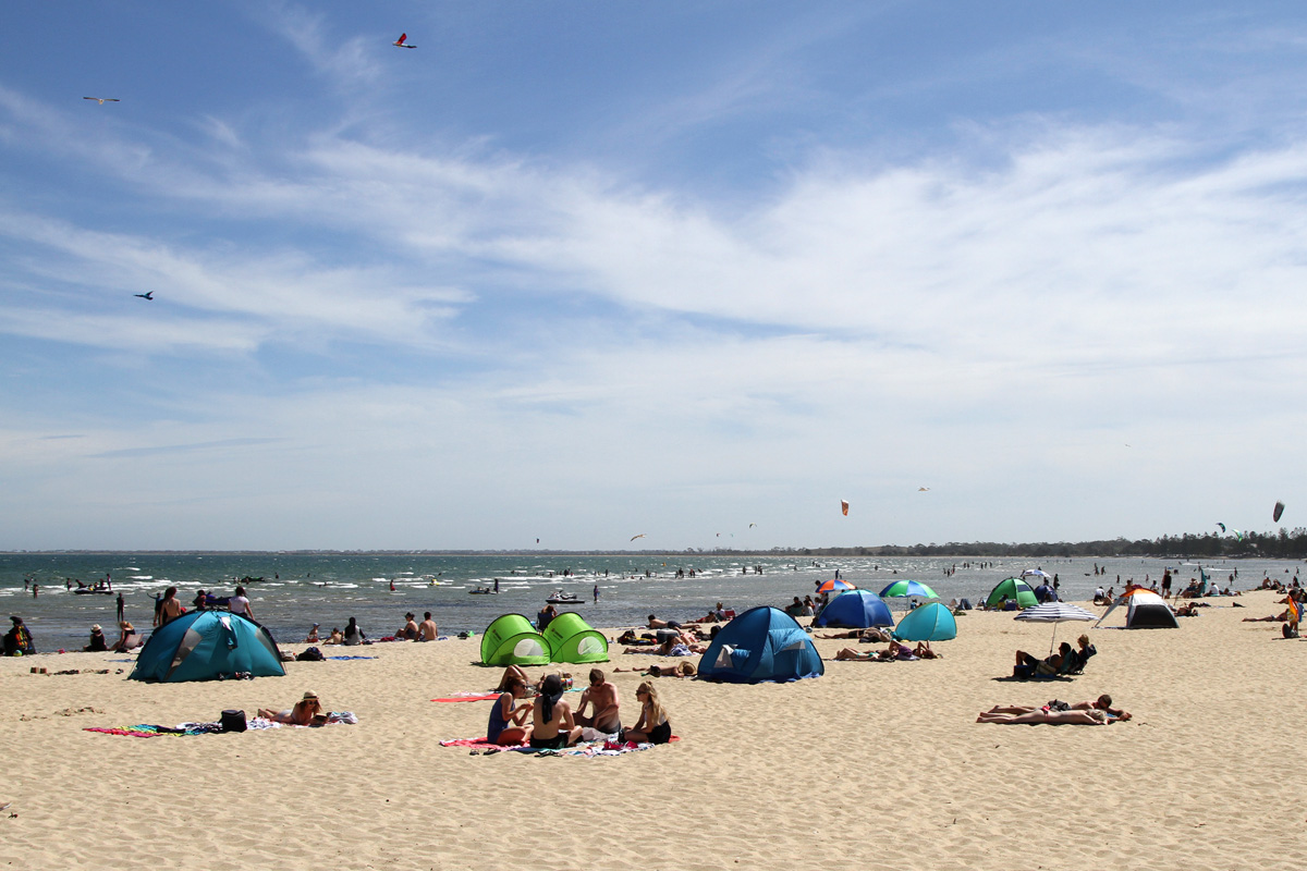 West side of Altona Beach from near the pier on a warm (31°) summer's Sunday afternoon with kites and kitesurfers in the distance, Altona, Victoria, Australia.